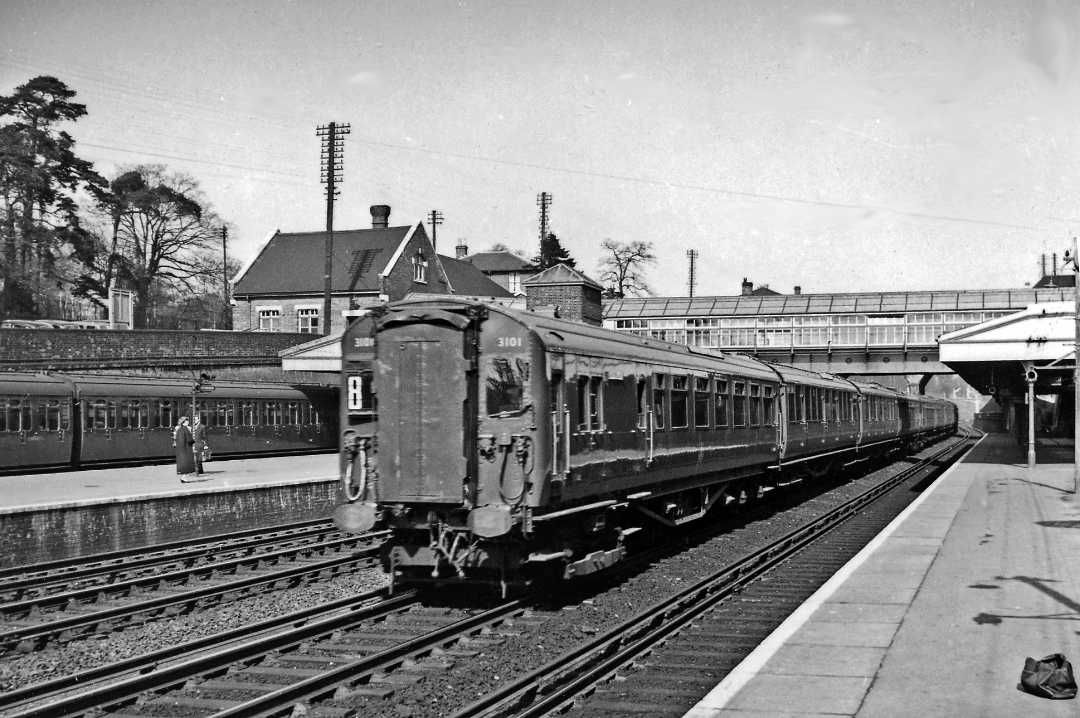 Waterloo - Portsmouth electric espress passing Weybridge. View NE, towards London; ex-London & South Western main line from London Waterloo - Southampton and Bournemouth/Portsmouth/Salisbury and the West. The train is the 13.50 Waterloo - Portsmouth Harbour, made up of 4-COR EMU's. On the left is a train for Staines via Addleston. (I always took the bag at bottom right with me)